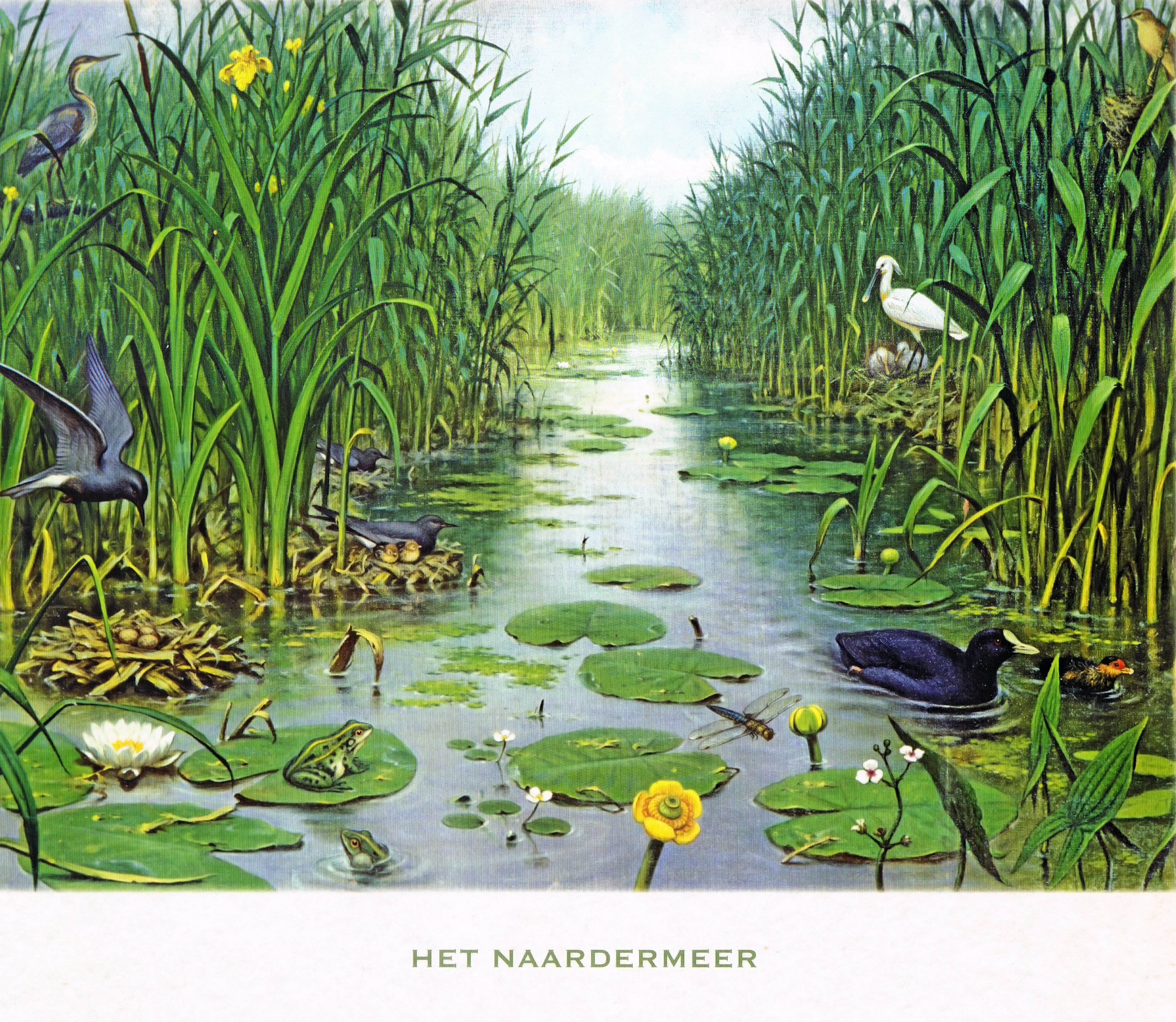 Painting of a typical dutch meadow by Marinus Adrianus Koekkoek